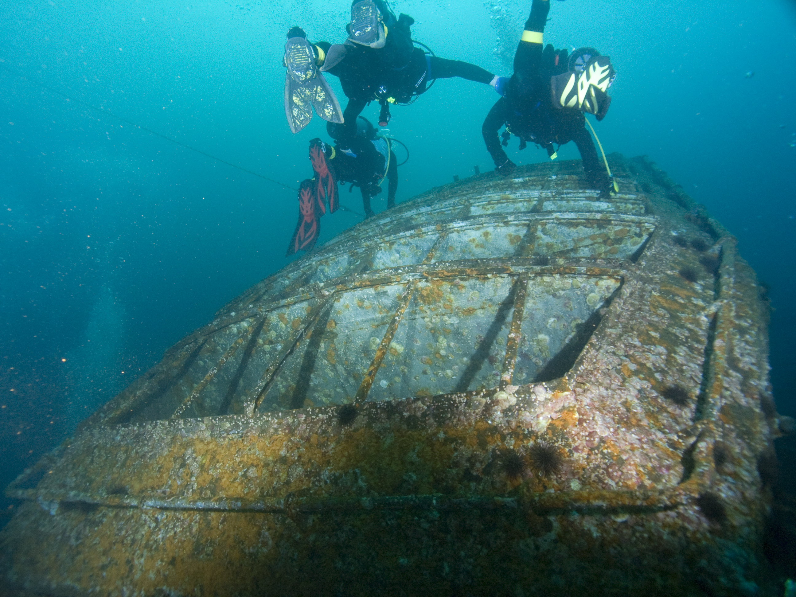 Climbing the smokestack! Underwater view of the ex-Oriskany taken 2 years after sinking. Most surfaces have growth of shells and sea urchins.